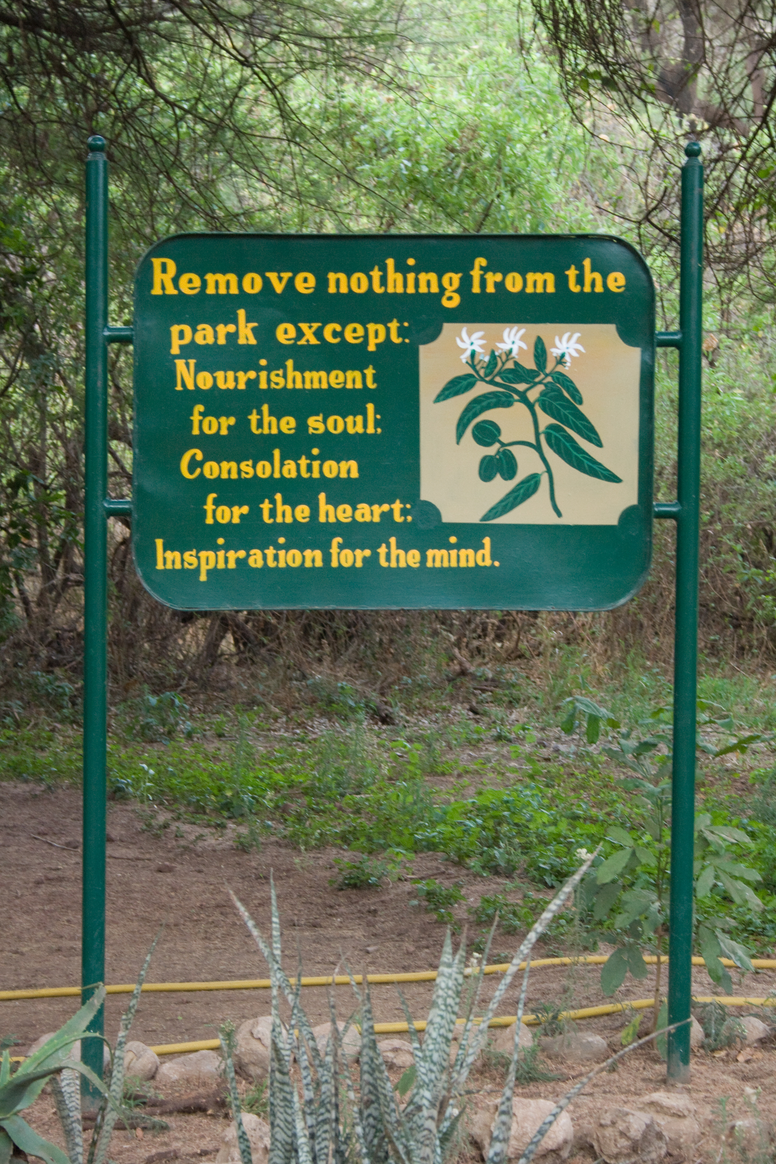 Remove nothing from the park except: Nourishment for the soul; Consolation for the heart; Inspiration for the mind.